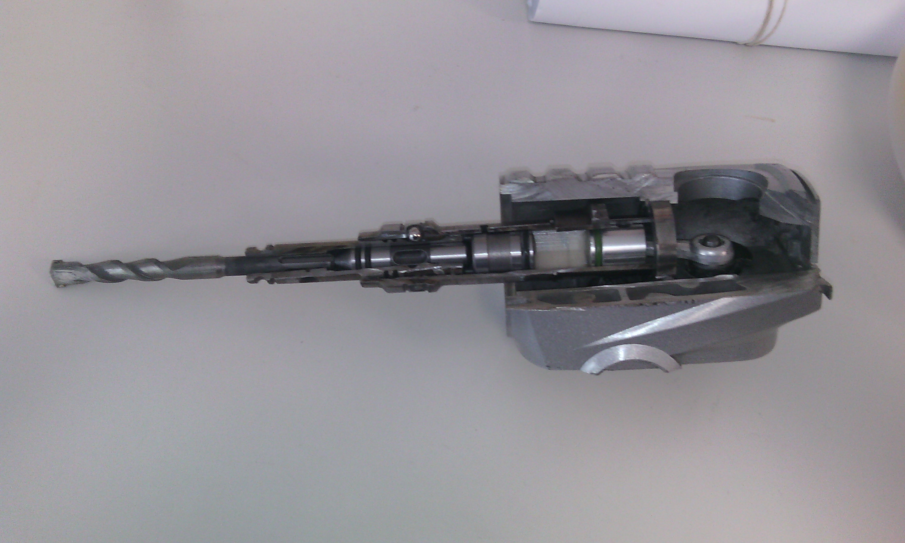 seeing the inside of the most common electropneumatic hammer, with drill bit. The air is symbolised with white plastic.